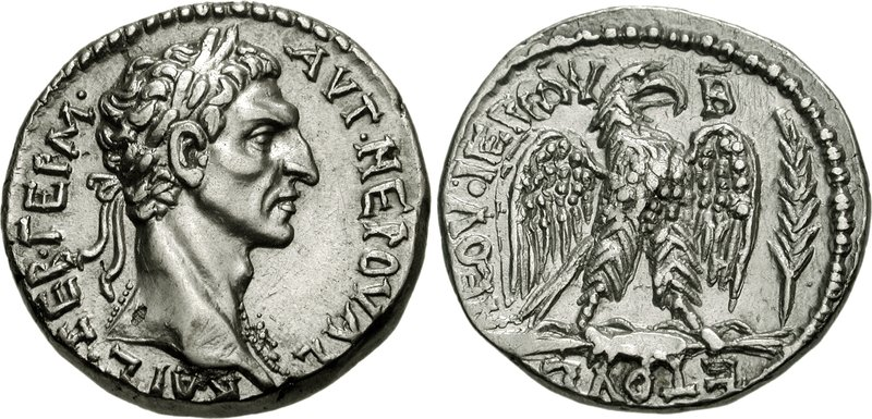 Nerva. AD 96-98. AR Tetradrachm (15.38 g, 12h). Antioch in Syria mint. Dated “New Holy Year” 2 (AD 97/8). AVT • NEPOVAΣ • KAIΣ • ΣEB • ΓEPM •, laureate bust right, aegis on left shoulder; all within pelleted border ETOVΣ NEOV • IEPOV (beginning in exergue), eagle standing right on thunderbolt, with wings displayed; palm frond to right, barred B (date) above left wing; all within pelleted border. McAlee 420; Prieur 150; Wruck 125. Superb EF, reverse slightly double struck. Rare.